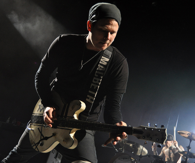 Tom DeLonge in 2011. Flickr Tags: Tom Delonge guitarist Travis Barker drummer spotlight smoke fog Macbeth black Honda Civic Tour blink-182 My Chemical Romance Sandstone Amphitheater Capitol Federal Park at Sandstone Pop Punk September 9 2011 9/9/2011 shaft light.